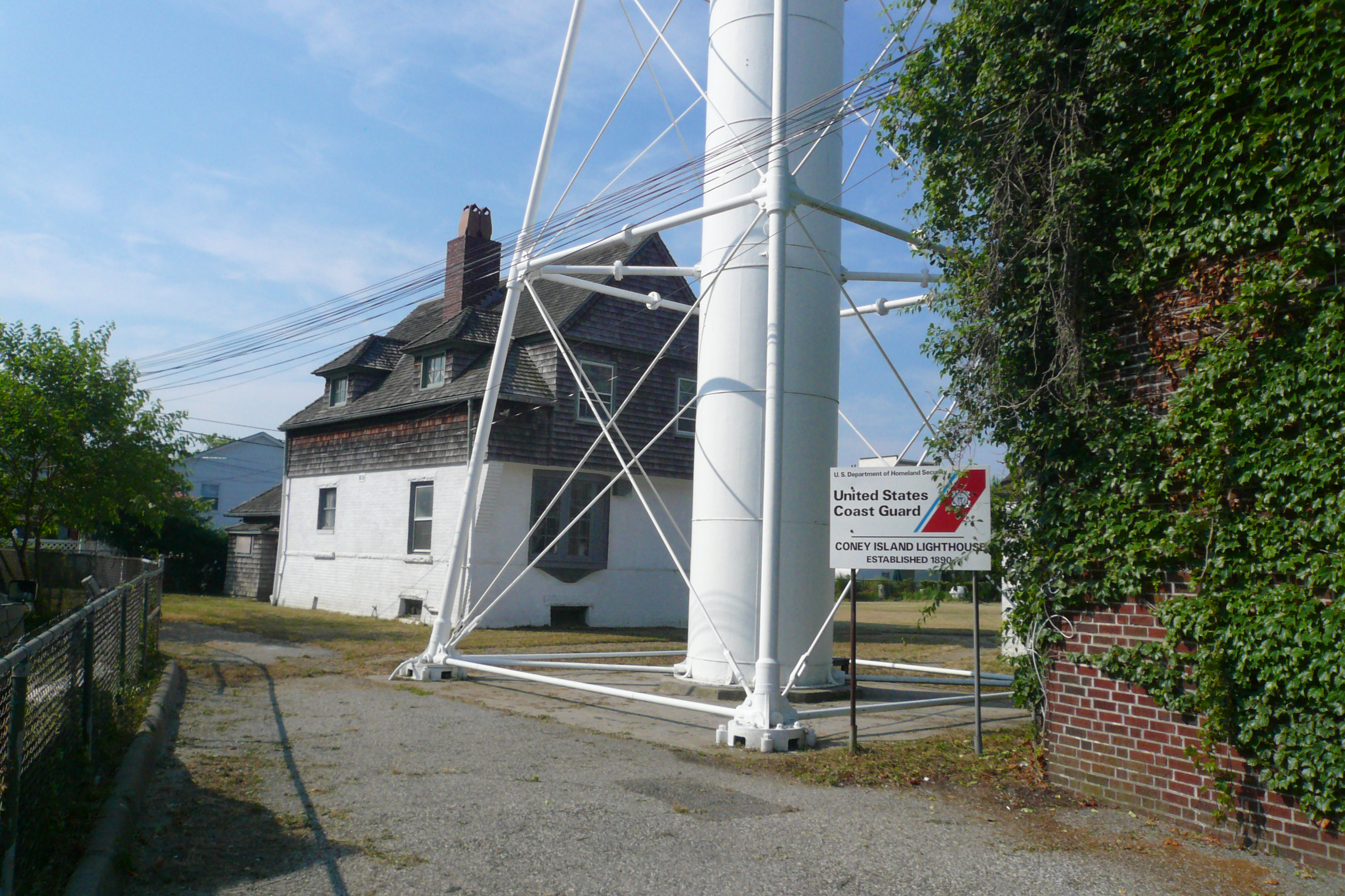 Coney island Lighthouse July 12th 2012 Established in 1890 US Coast Guard Homeland Security Current Operational